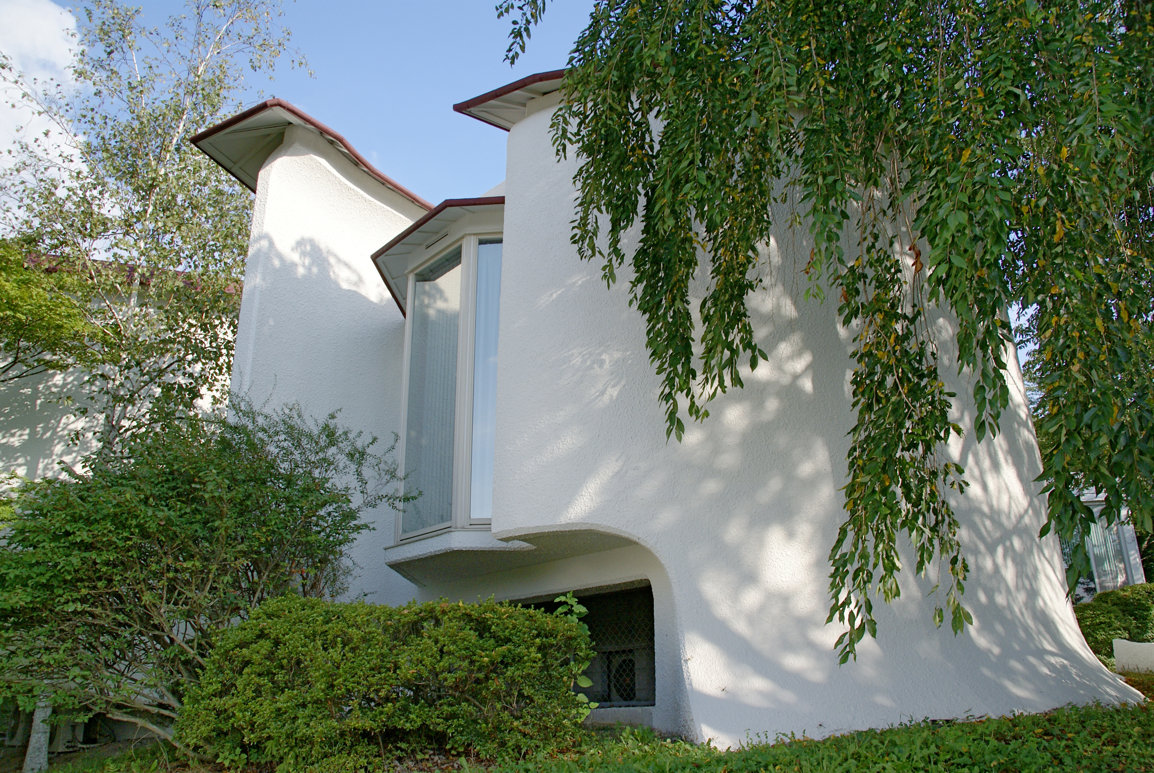 Koyama Keizo Museum of Art in Komoro, Nagano prefecture, Japan